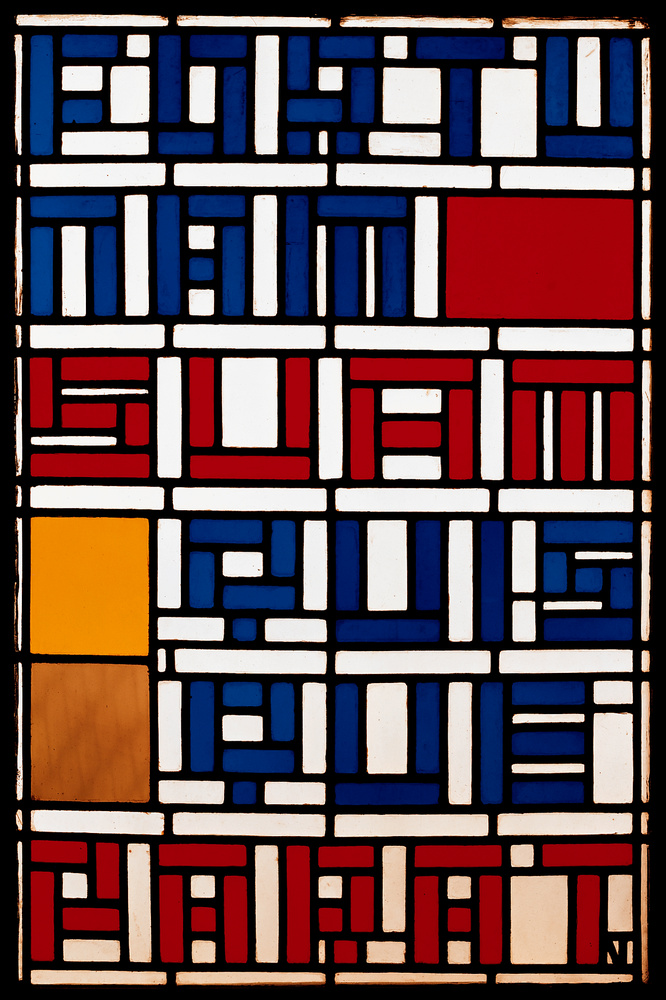 Stained glass window. Leaded glass. 57 × 38 cm. Strasbourg, Musée d'Art Moderne et Contemporain de Strasbourg. Alternative title(s): Vitrail Fortunam suam quisque parat. Signature bottom right: TvD Provenance: 1927: commissioned by André Horn, Strasbourg (?) 1958: given to Musée d'Art Moderne et Contemporain de Strasbourg, Strasbourg, by Paul Horn (1879-1960), Strasbourg